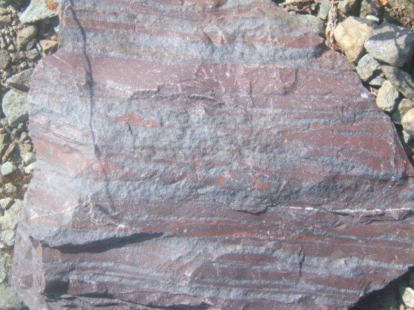 A banded iron formation sample from the North Pit of Sherman Mine in Temagami, Ontario, Canada.